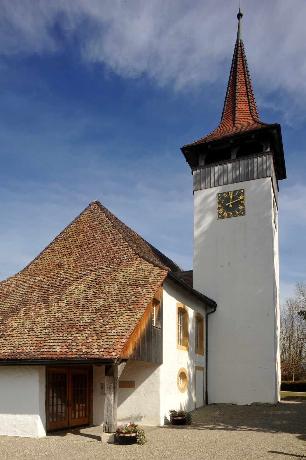 Church in Sutz-Lattrigen; Berne, Switzerland.